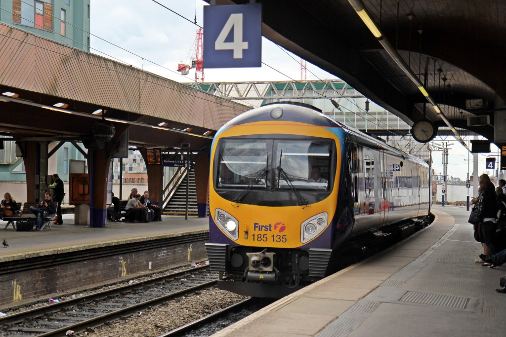 First TransPennine Class 185, 185135, Manchester Oxford Road railway station